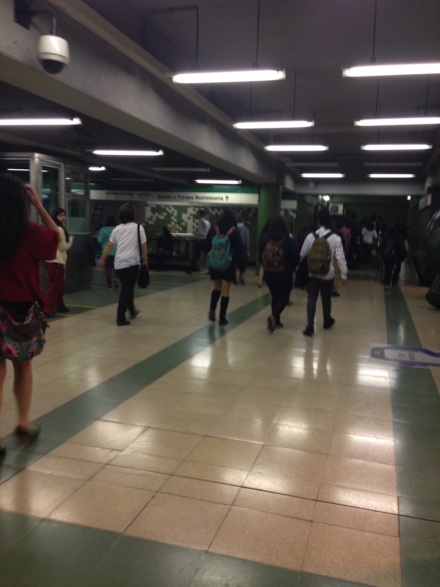 Estudiantes en el metro de Santiago de Chile, ejerciendo migración pendular un día en la mañana